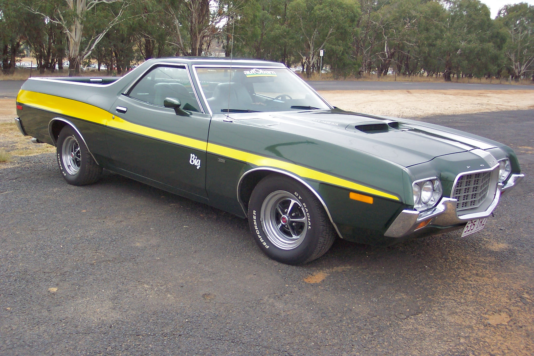 1972 Ford Ranchero GT ute. This one is powered by the 429 cubic inch big block V8. Taken in the carpark at the inaugural Bathurst International Motor Fest 2006, held at Mount Panorama Bathurst.